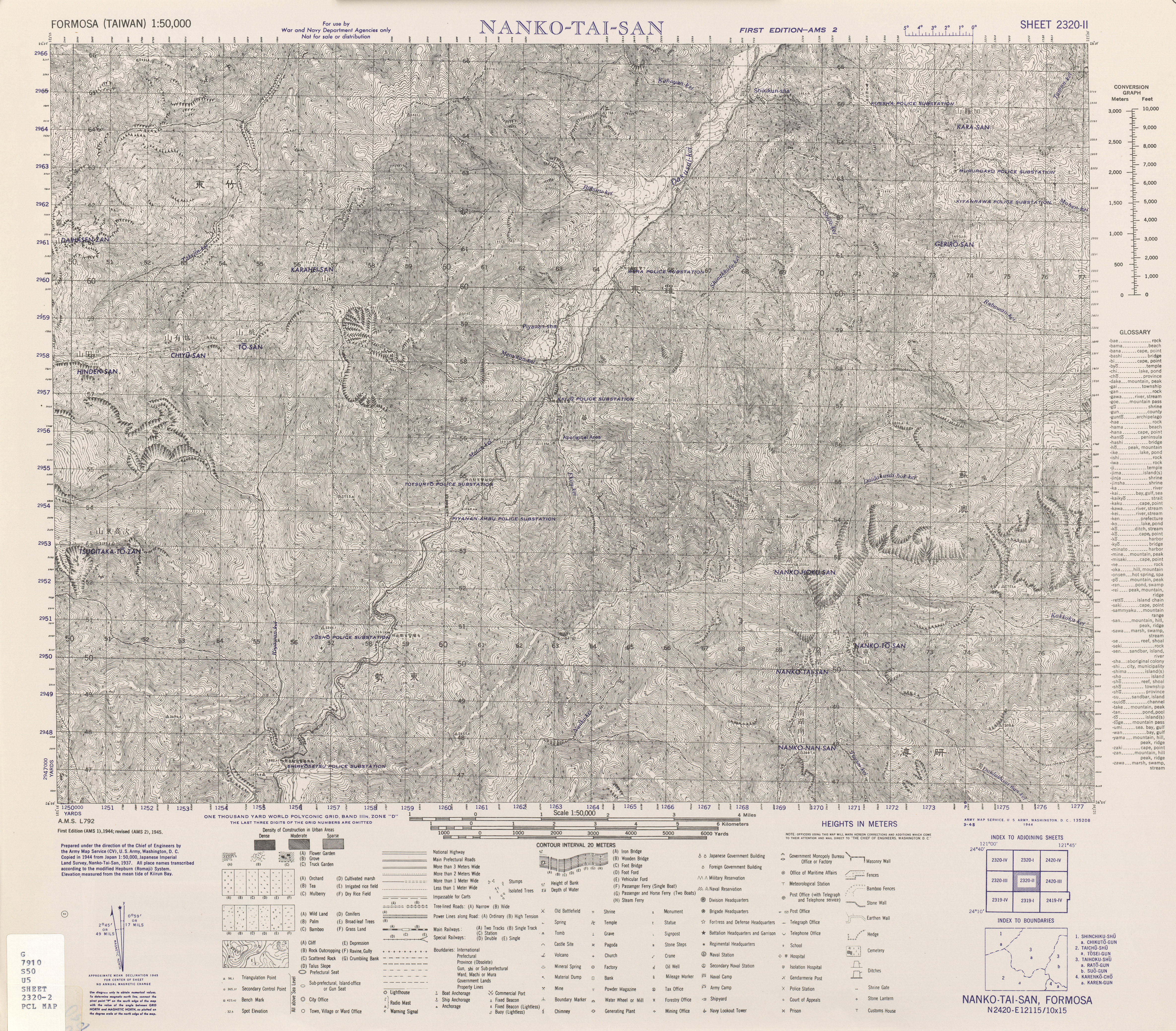 Map from Formosa (Taiwan) 1:50,000 AMS Series L792